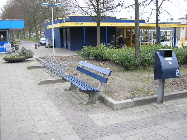 Street furniture: rubbish bin, bench, bike rack, flower trough and lamp post. Apparently Hengelo, Overijssel in the Netherlands.